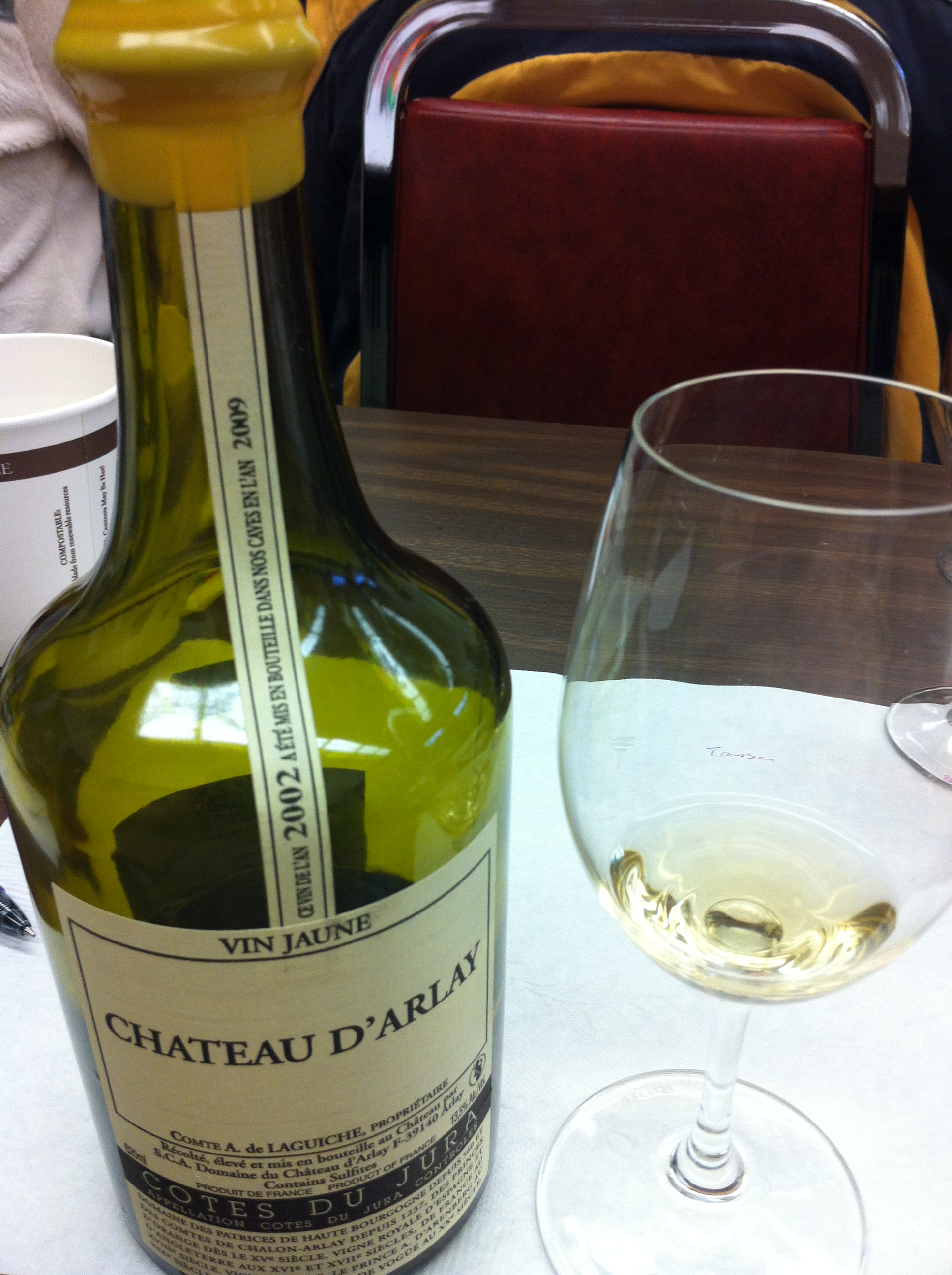 Vin Jaune wine made from late harvested Savagnin grape in a style similar to Sherry except that the wine is not fortified.